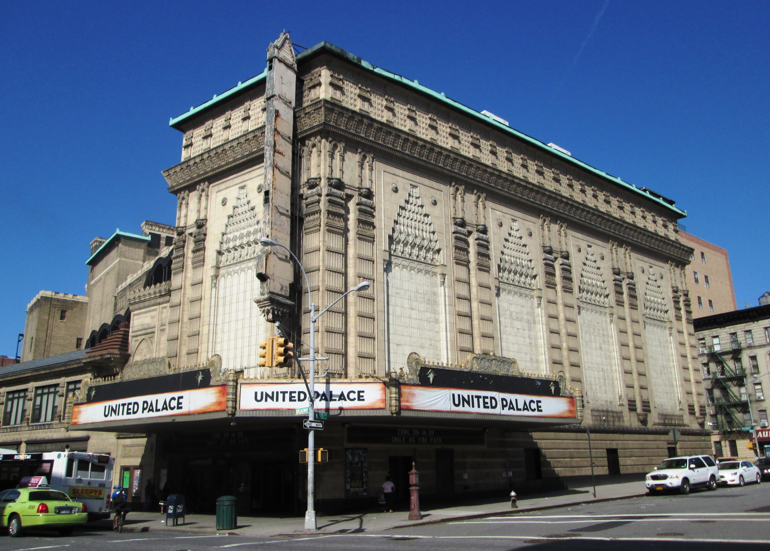 The United Palace is a former movie and vaudeville theatre now used as a church and live music venue, located at 4140 Broadway between West 175th and 176th Streets in the Washington Heights neighborhood of Manhattan. New York City. It was built and opened in 1930 as the Loew's 175th Street Theatre, a movie palace, and was designed by Thomas W. Lamb in an eclectic mix of styles. It was purchased in 1969 by evangelist "Reverend Ike" to be the headquarters for his United Church Science of Living Institute. The historic theatre, renamed the Palace Cathedral was restored by the church.